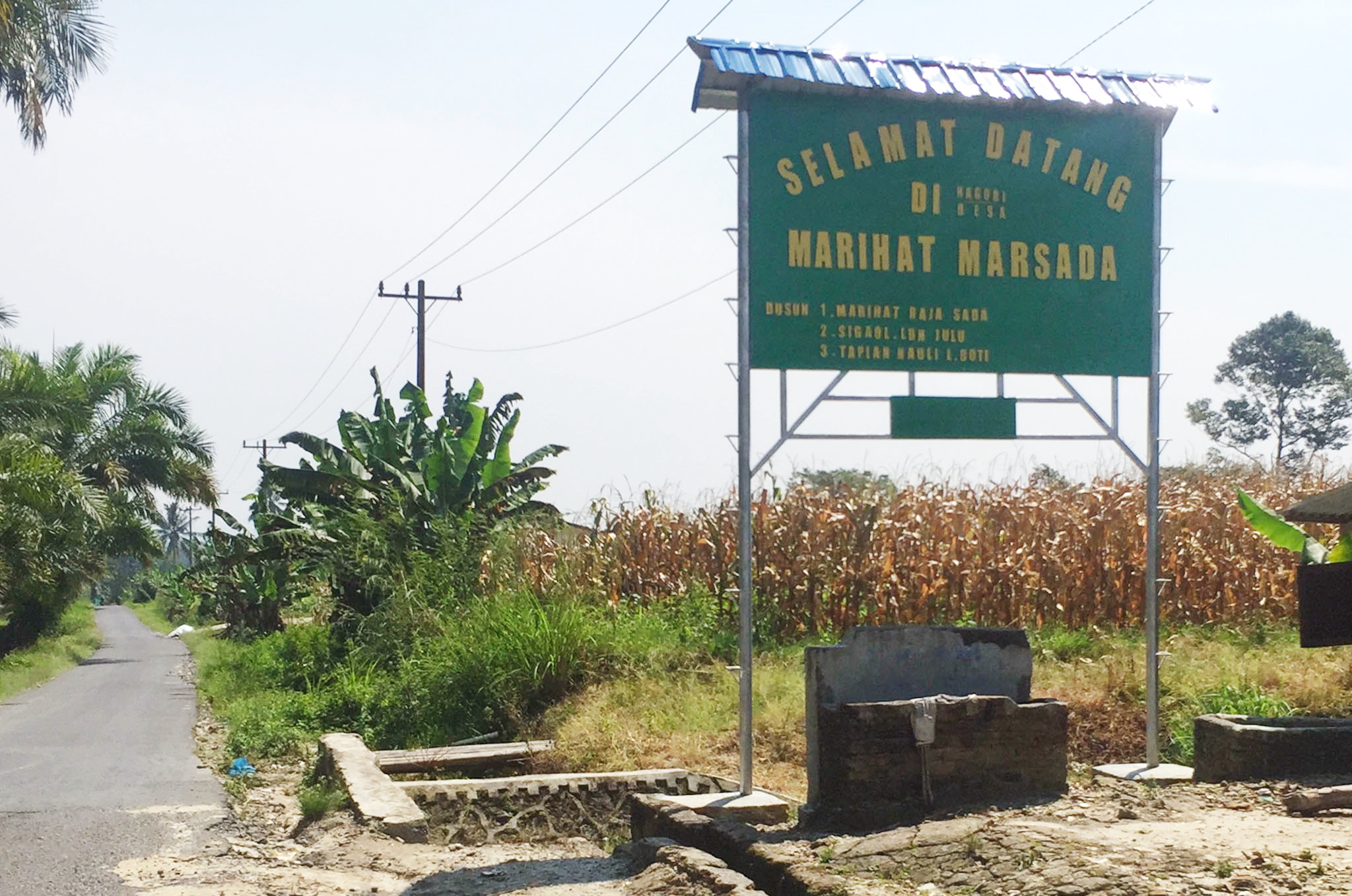 welcome gate to Marihat Marsada, Dolok Panribuan, Simalungun